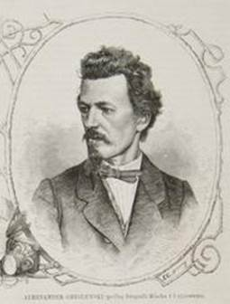 Portrait of the painter Aleksander Gryglewski (1833-1879) from Tygodnik Ilustrowany